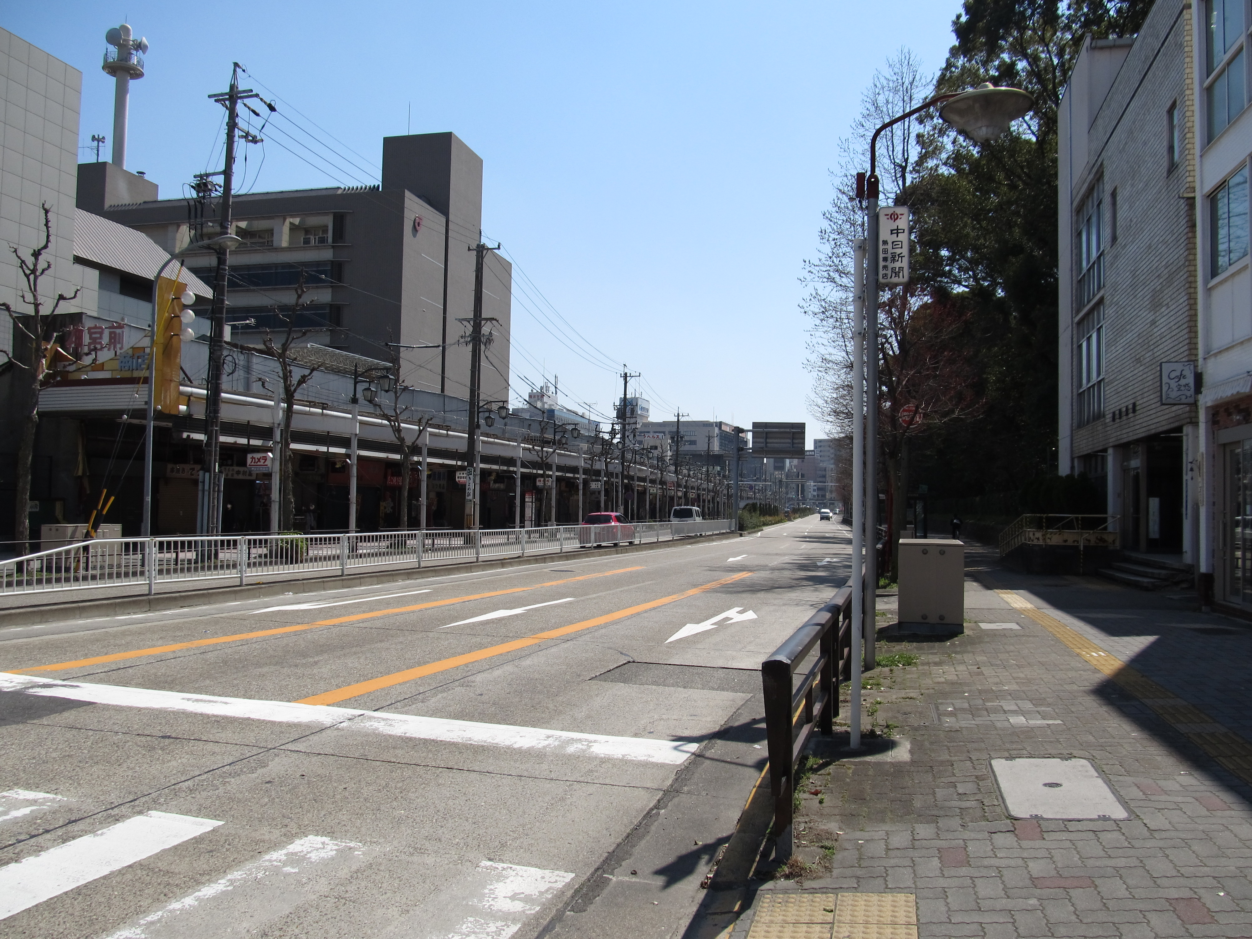 The Aichi Prefectural Road Route 226 at the Atsuta-ekimae Intersection